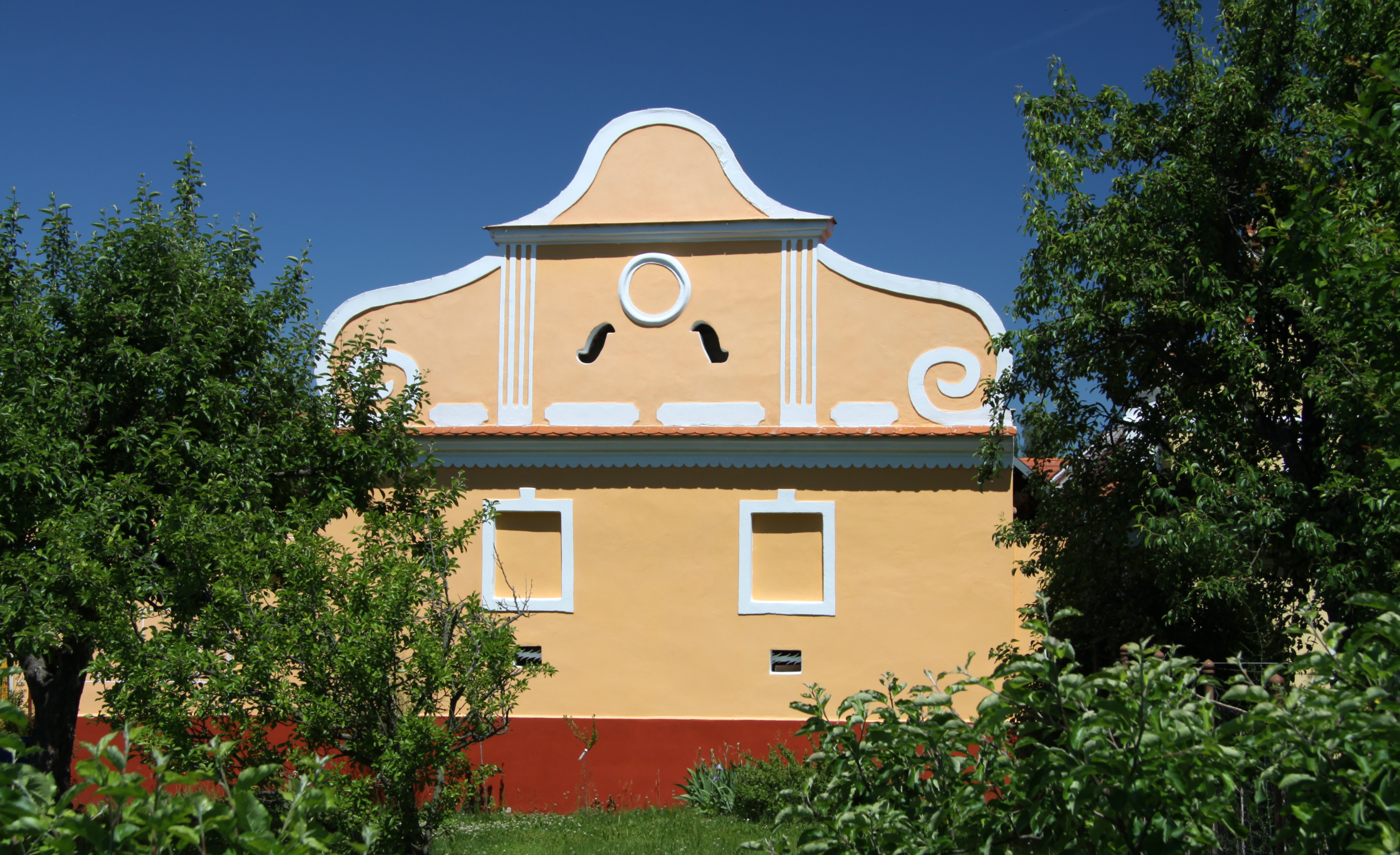 Dynín village in České Budějovice District, Czech Republic